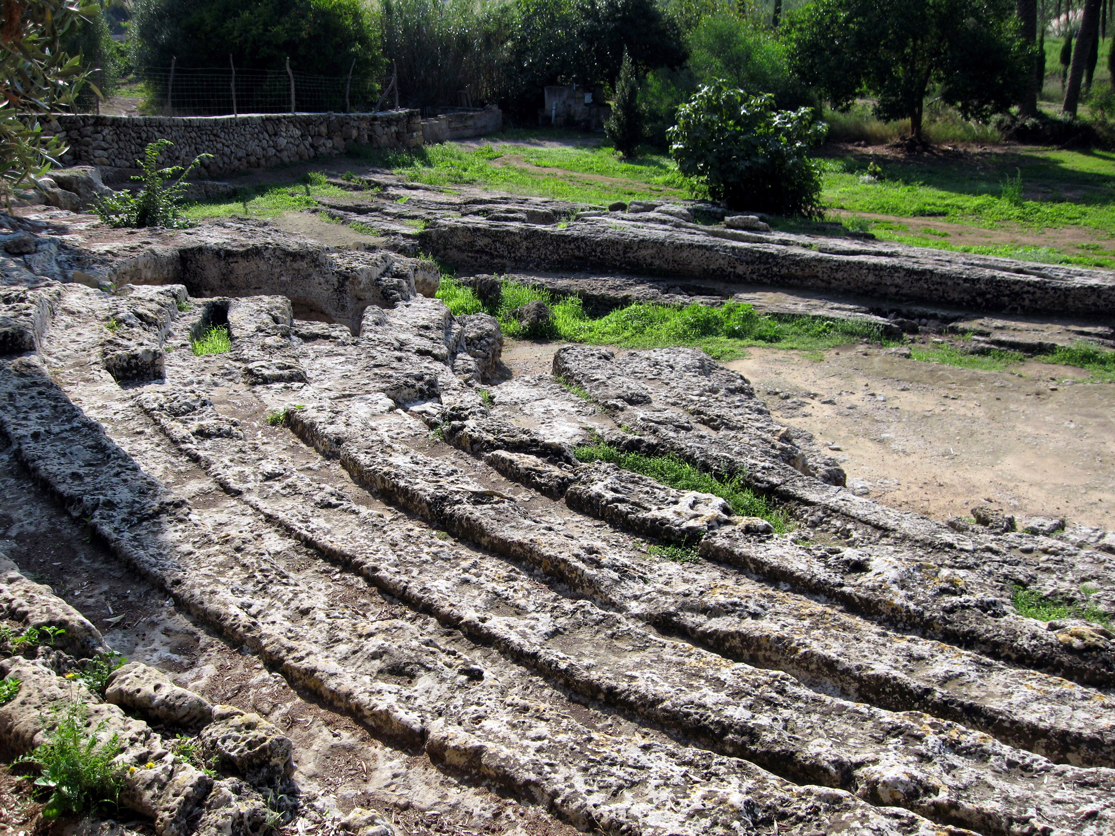 The ruins of the Ancient Roman theatre in Pollentia (Pol·lèntia), Alcúdia, Mallorca, Spain.